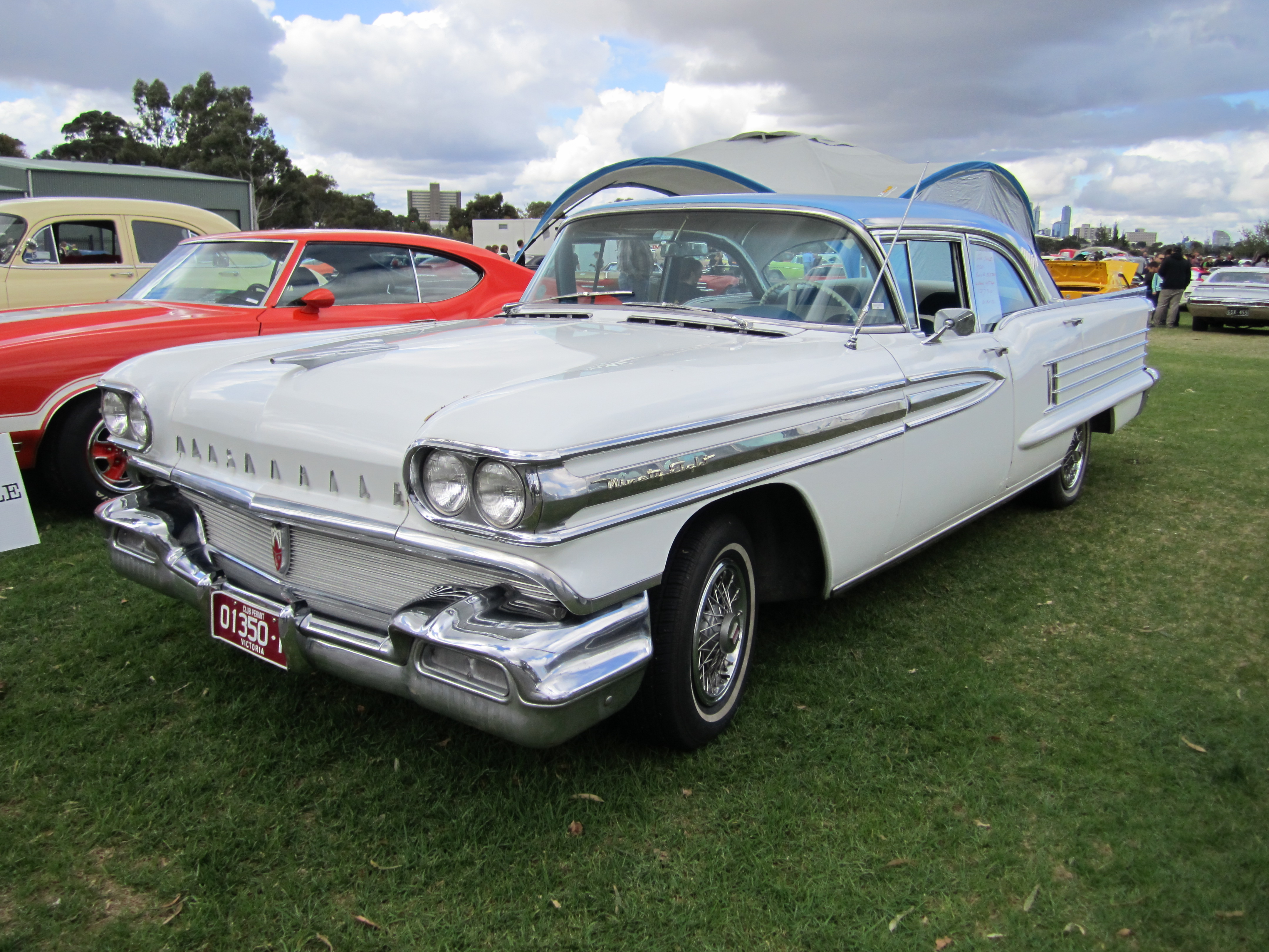 Available in 2 & 4 door Hardtops, Sedan, Coupe & Convertible Engine; 371 Rocket V8